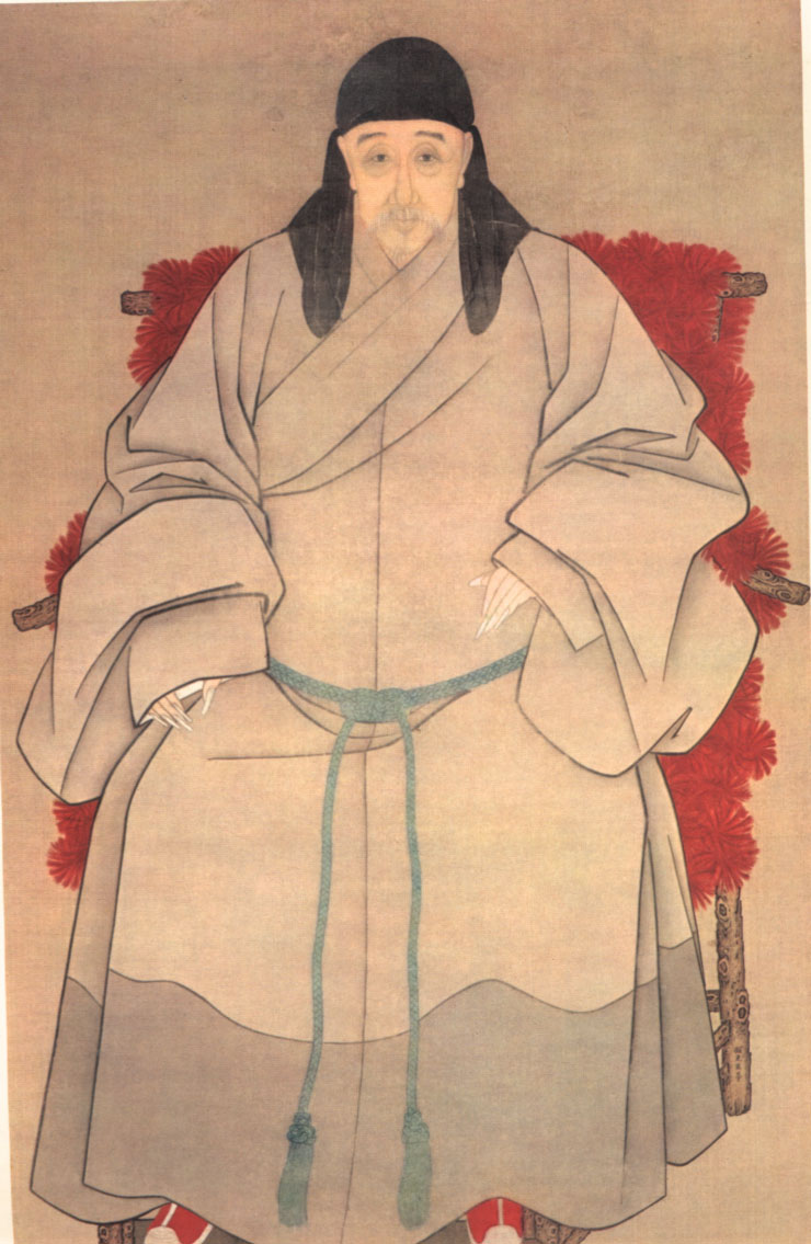 Depicted person: 吴伟业 (Wu Weiye), Chinese poet